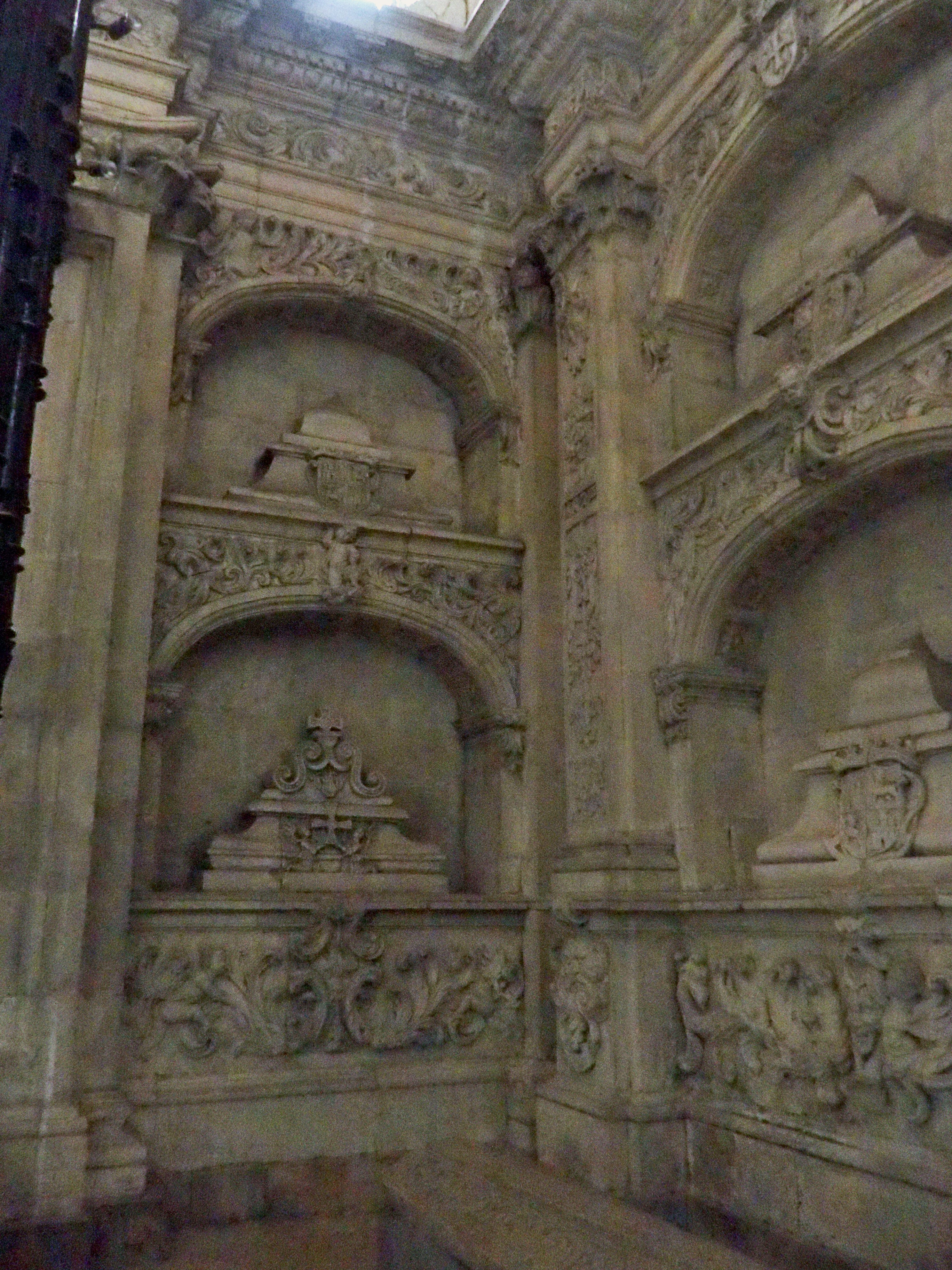 Panteó dels reis d'Astúries, a la Capilla del Rey Casto de la catedral d'Oviedo, construït al s. XVIII